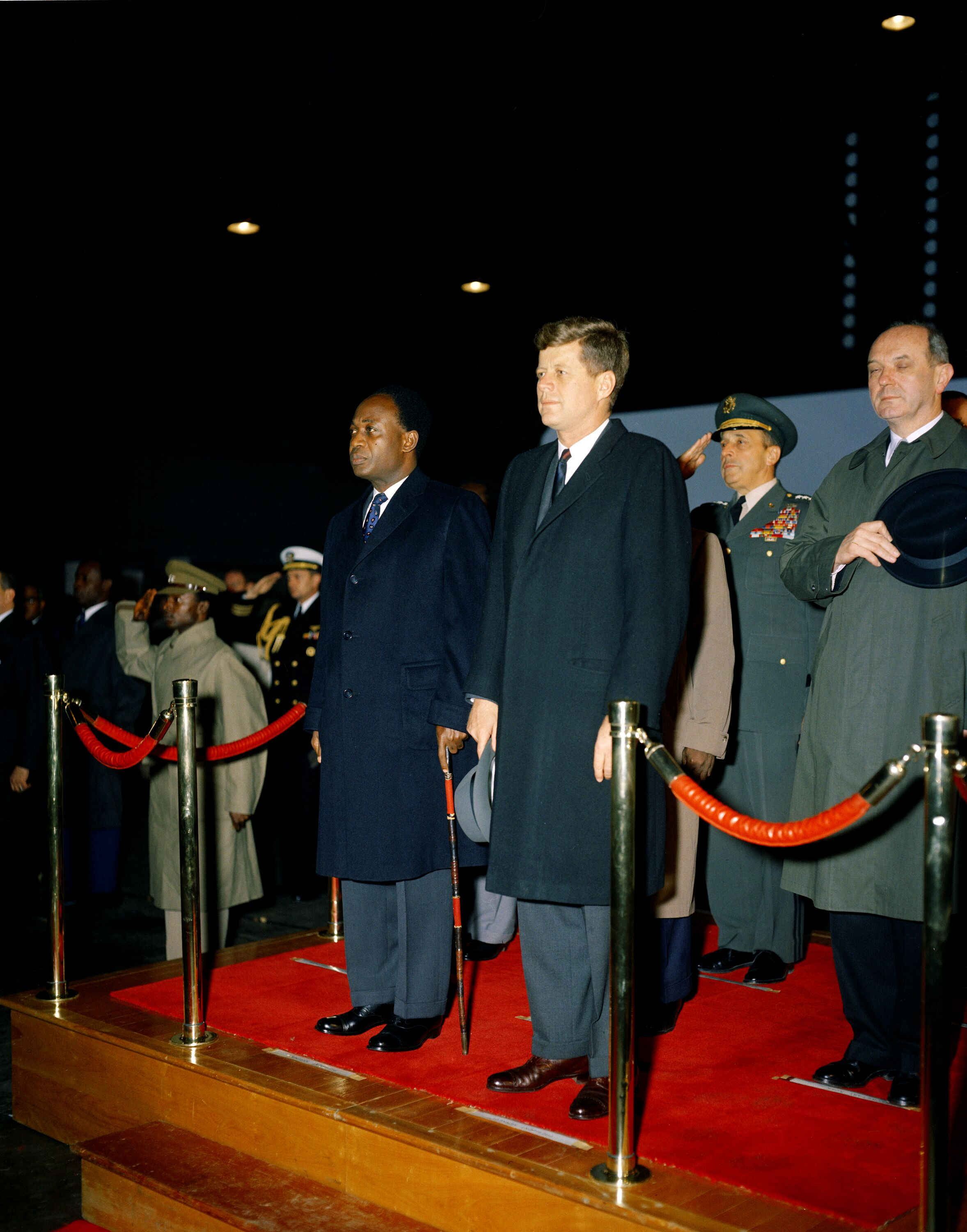 President John F. Kennedy Attends Arrival Ceremonies for Osagyefo Dr. Kwame Nkrumah, President of the Republic of Ghana